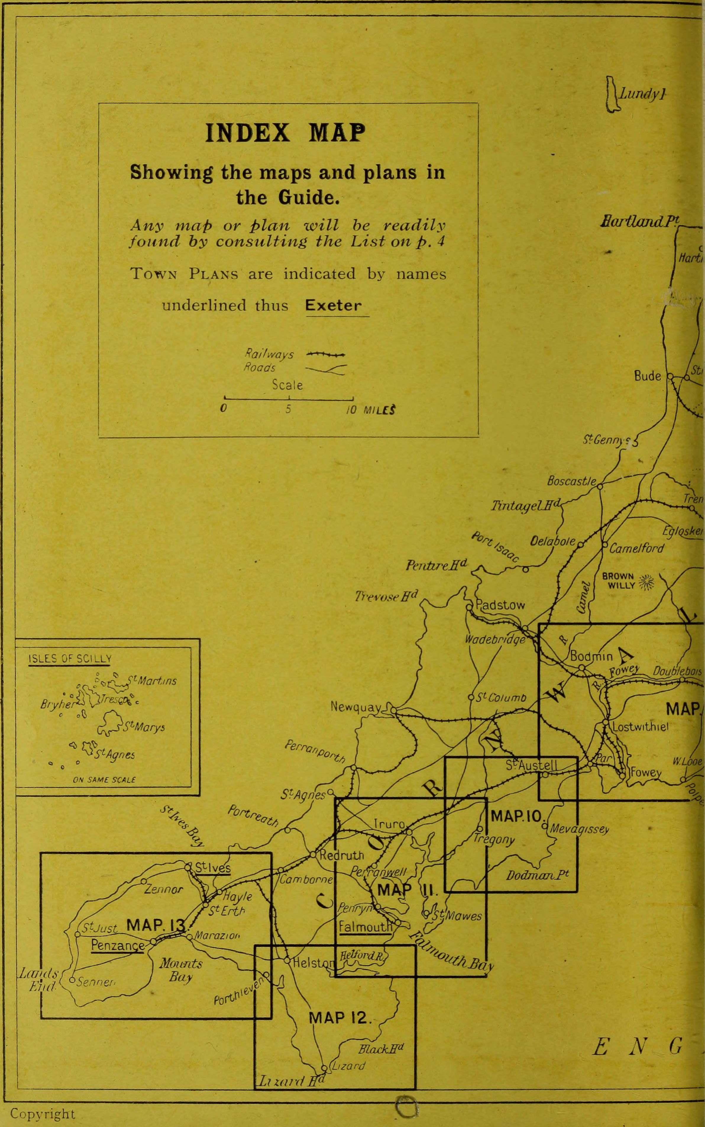 Title: South Devon and south Cornwall, with a full description of Dartmoor and the Isles of Scilly Year: 1900 (1900s) Authors: Baddeley, Mountford John Byrde, 1843-1906 Ward, Charles Slegg Subjects: Publisher: London Ward, Lock Text Appearing Before Image: llandreath, 283Vellan Head, 265Vitifer Tin Mine, 139Vixen Tor, 178, 142 Webburn Glen, 138Weir Head, 214, 212Wellington, 35Wembury, 199, 186Western Beacon, 183Westhay Farm, 44Weston Mouth, 57, 63Whiddon Park, 146Whitchurch (Tavistock), 193 „ Canonicorum, 41 „ Down, 178, 189White Cliff, 53, 55, 63Whitebarrow, Eastern and Western, 94—5 Whitesand Bay (Lands End), 283White Works, 180 Whitsand Bay (Plymouth), 218, 216,240 Widecombe-in-the-Moor, 138-9, 148, 162-3Windstone Pits, 127Windypost, 178Wistmans Wood, 188-9, 164Wolf Bock Lighthouse, 285, 30, 303Woodbury Road, 79Wooston Castle, 146Wra, the, 297Wrangaton, 95Wynanton, 264 Yar Tor, 141 Yealm Mouth, 186, 189 „ River, 21, 123, 186Yealmpton, 123, 200Yelland, 172Yellow Cam, 267Yelverton, 196, 164, 181-2Yeoford Junction, 165Yeovil, 34Yes Tor, 168-9, 132 Walkham River, 20Walkhampton, 190, 189Walla Brook, 160Warberry Hill, 94Warleigh, 213Warren, the, 88, 80, 87Warren House Inn, 139, 163Watergate, 240Watern Tor, 160, 158 Zennor, 296, 295 Text Appearing After Image: BINDING RETT. APR 2 9 1964 PLEASE DO NOT REMOVECARDS OR SLIPS FROM THIS POCKET UNIVERSITY OF TORONTO LIBRARY DA Baddeley, Mountford John 670 Byrde D5B34- South Devon and south 1900 Cornwall 9th ed., rev.